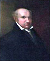 Isaac Parker, US Representative from Massachusetts